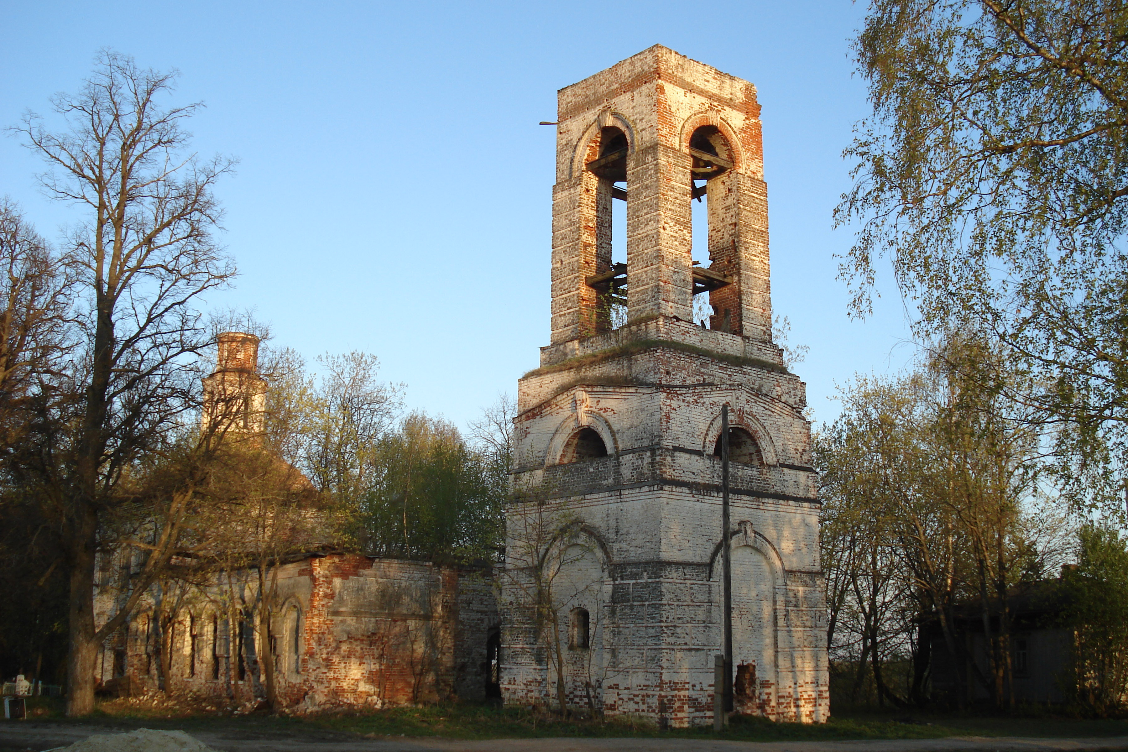 Ruin of Pokrov Church in Bolshoye Zagarino. Nizhegorodskaya oblast